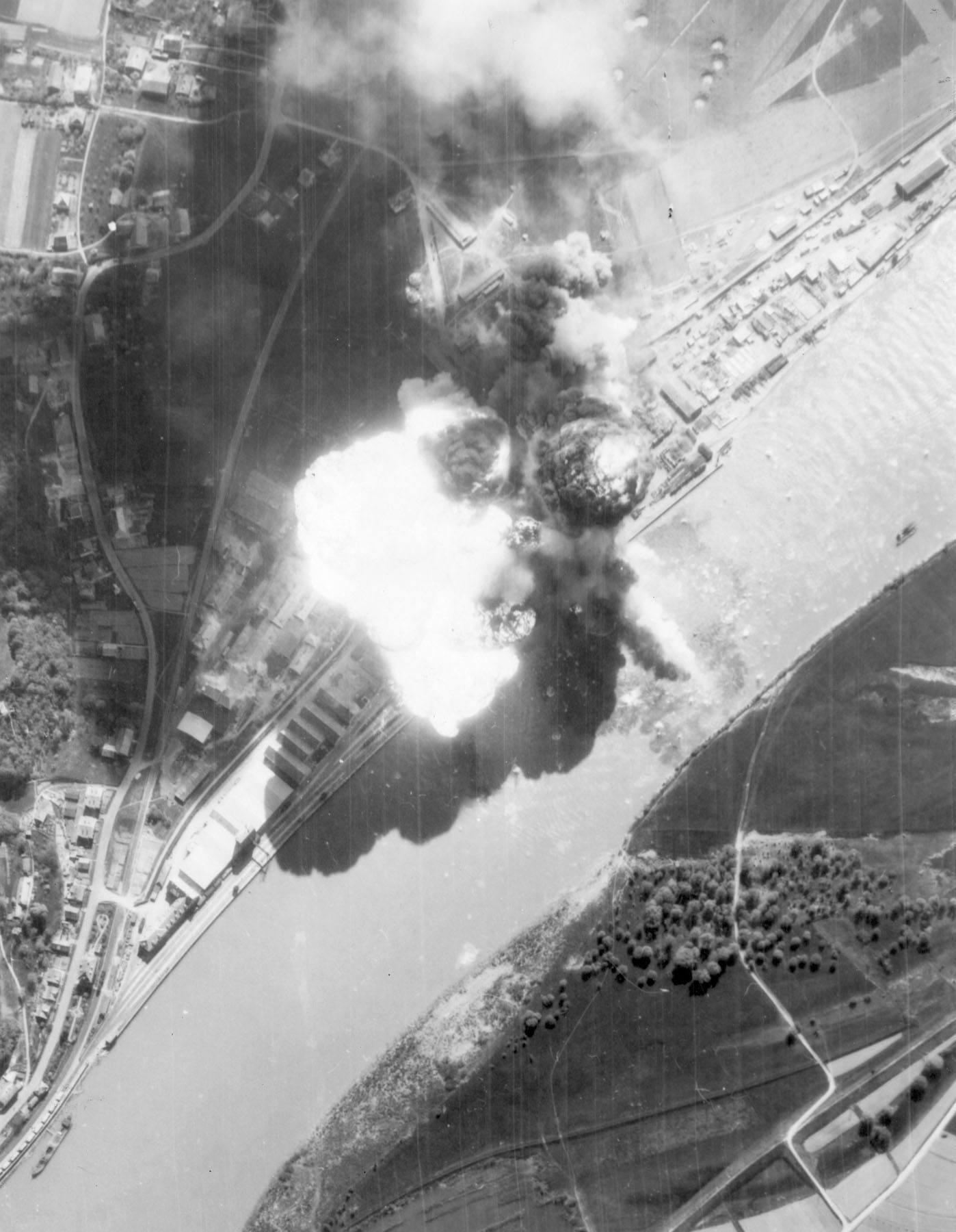 A USAAF strike photo of an attack on Deggendorf harbour, Bavaria, on 20 April 1945. Deggendorf was attacked from Douglas A-20 Havocs of the 426th Bomb Group. The Siriuswerke ("Deggendorfer Bleicherde - Fabriken") and the Wallner company were destroyed. A 5000 t grain silo and twelve oil tanks were destroyed at Wallner, as were the quais and most of the buildings. The photo shows most obviously the explosion of the oil tanks.